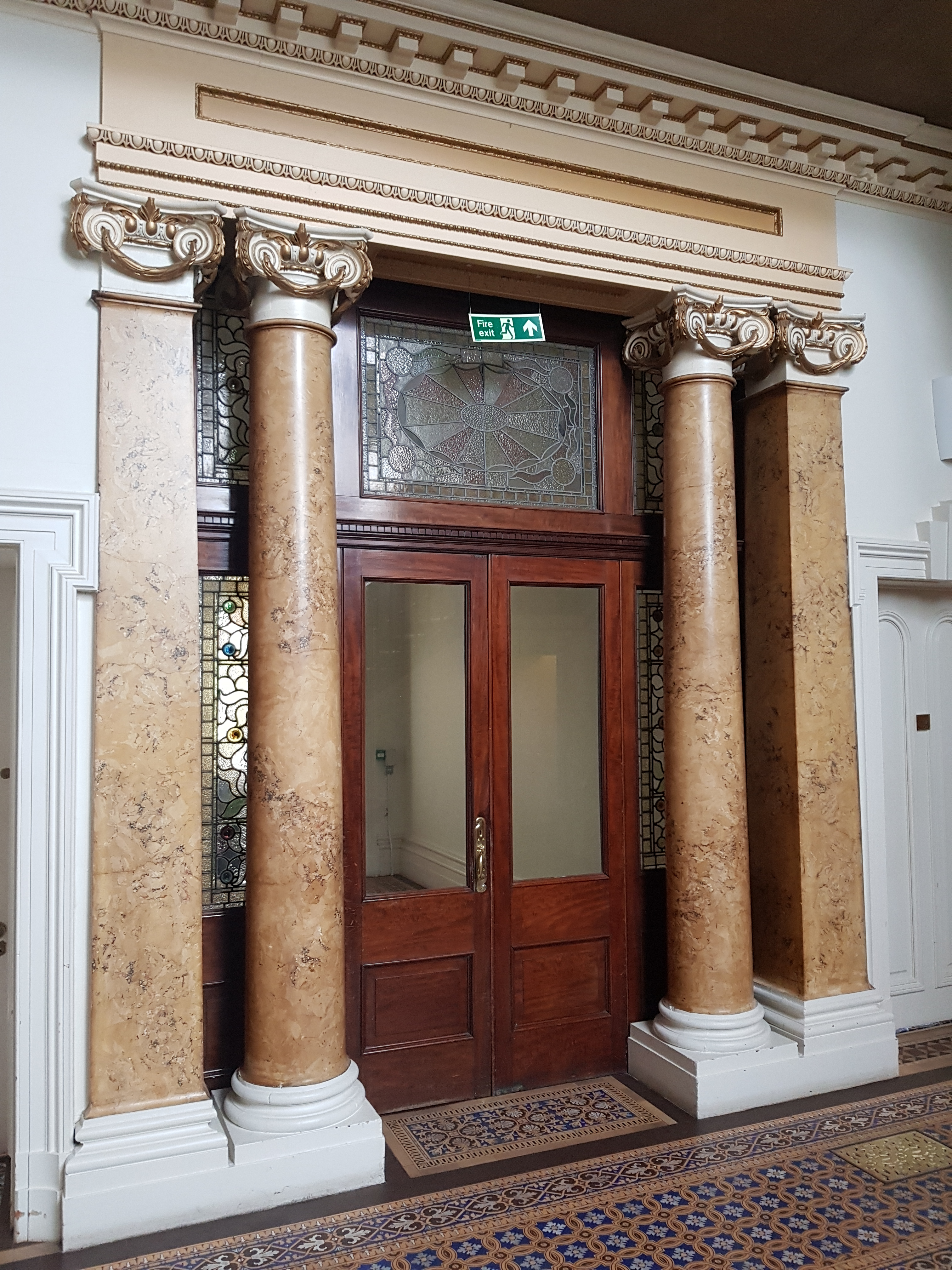 Marble columns inside the entrance to Runcorn Town Hall, formerly Halton Grange